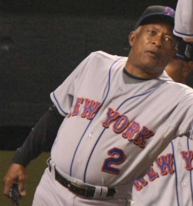 Daniel Murphy of the New York Mets is greeted by Jerry Manuel, Sandy Alomar and others in the dugout at Camden Yards during a 2009 game in Baltimore